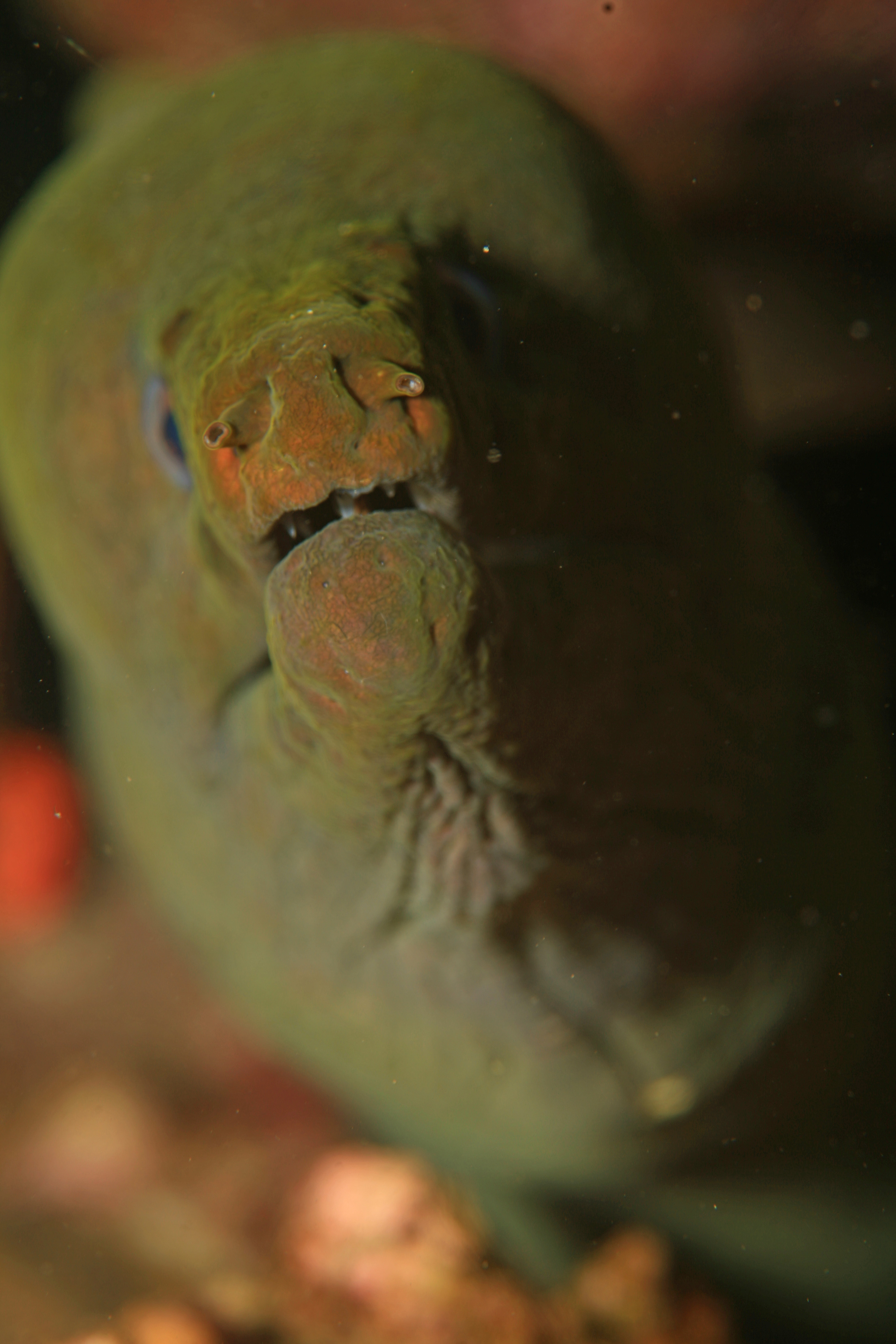 Who's more curious, photographer or eel? I enjoyed this close encounter at Mali Mali dive site in Coiba National Park, Panama. Day 5